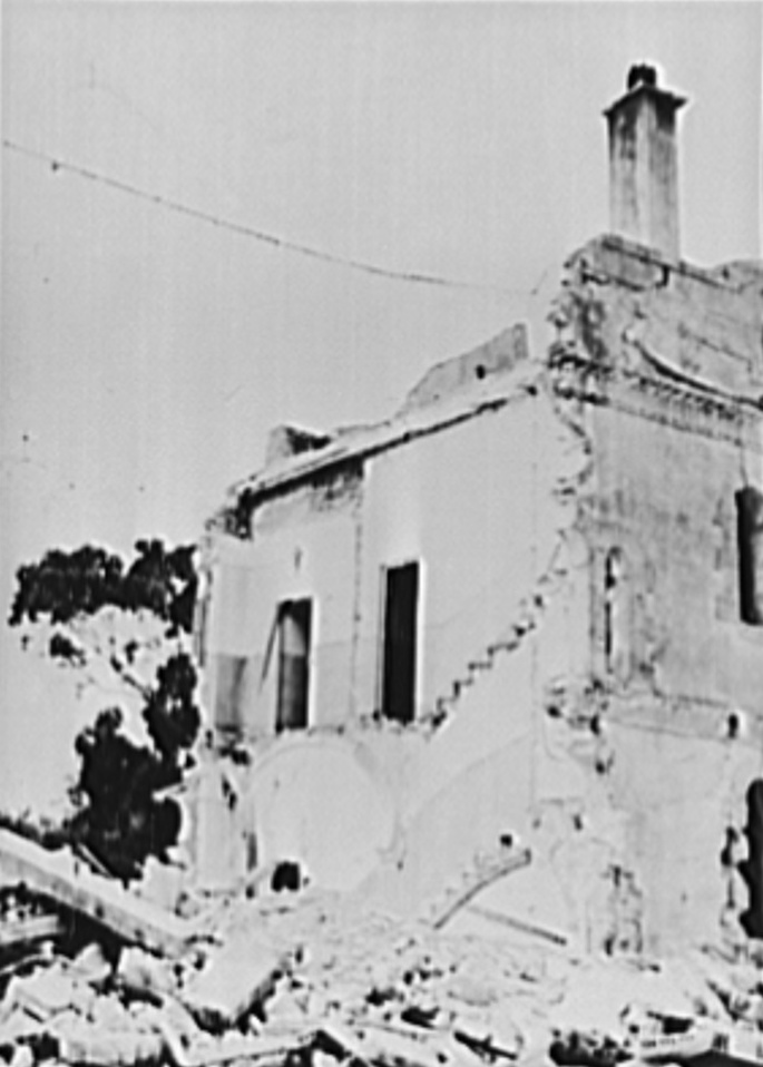 Algiers convent where fifteen nuns were killed by Nazi bombs. When German dive bombers raided the North African port of Algiers on April 17, fifteen Catholic sisters perished at their prayers as the bombs demolished this convent-orphanage. The fifteen who died and three sisters who were severely wounded remained behind to pray when the raid started while other nuns led sixty orphans from the building to the safety of an air raid shelter. Among the victims was Mother Superior Marie Duval, who had been at the convent for thirty-one years. General Henri Honore Giraud, civil and military commander-in-chief of French North and West Africa, awarded Mother Duval the French Legion of Honor posthumously, stating: "On April 17, 1943, she was a victim of German barbarism, as were fourteen of her sisters." This picture was radiophotoed from North Africa to the United States.